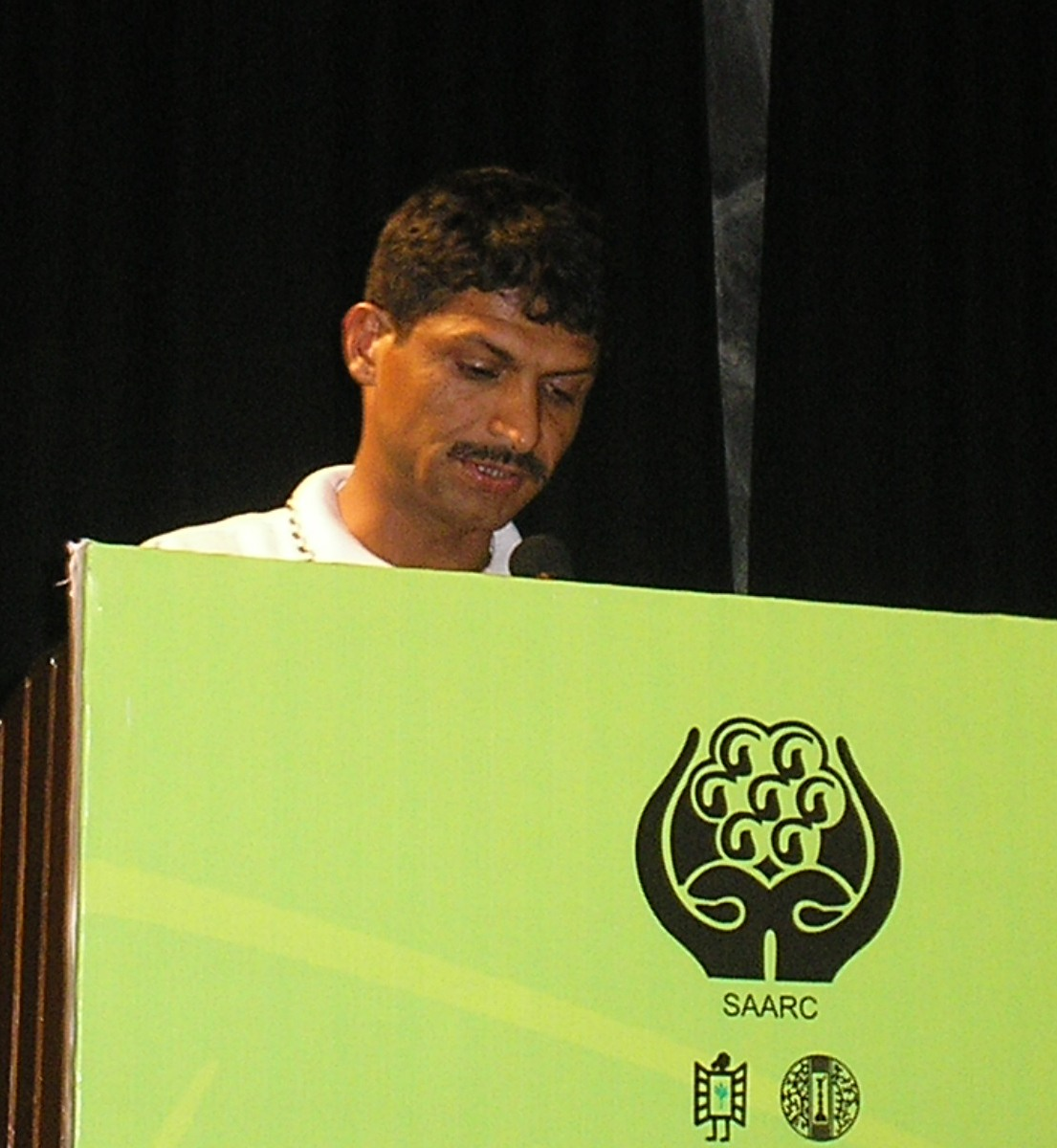 Suman Pokhrel reciting his poem in SAARC Festival of Literature 2010 in New Delhi